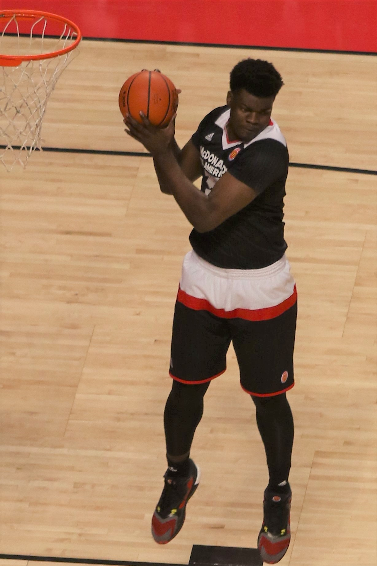 Udoka Azubike at the w:2016 McDonald's All-American Boys Game